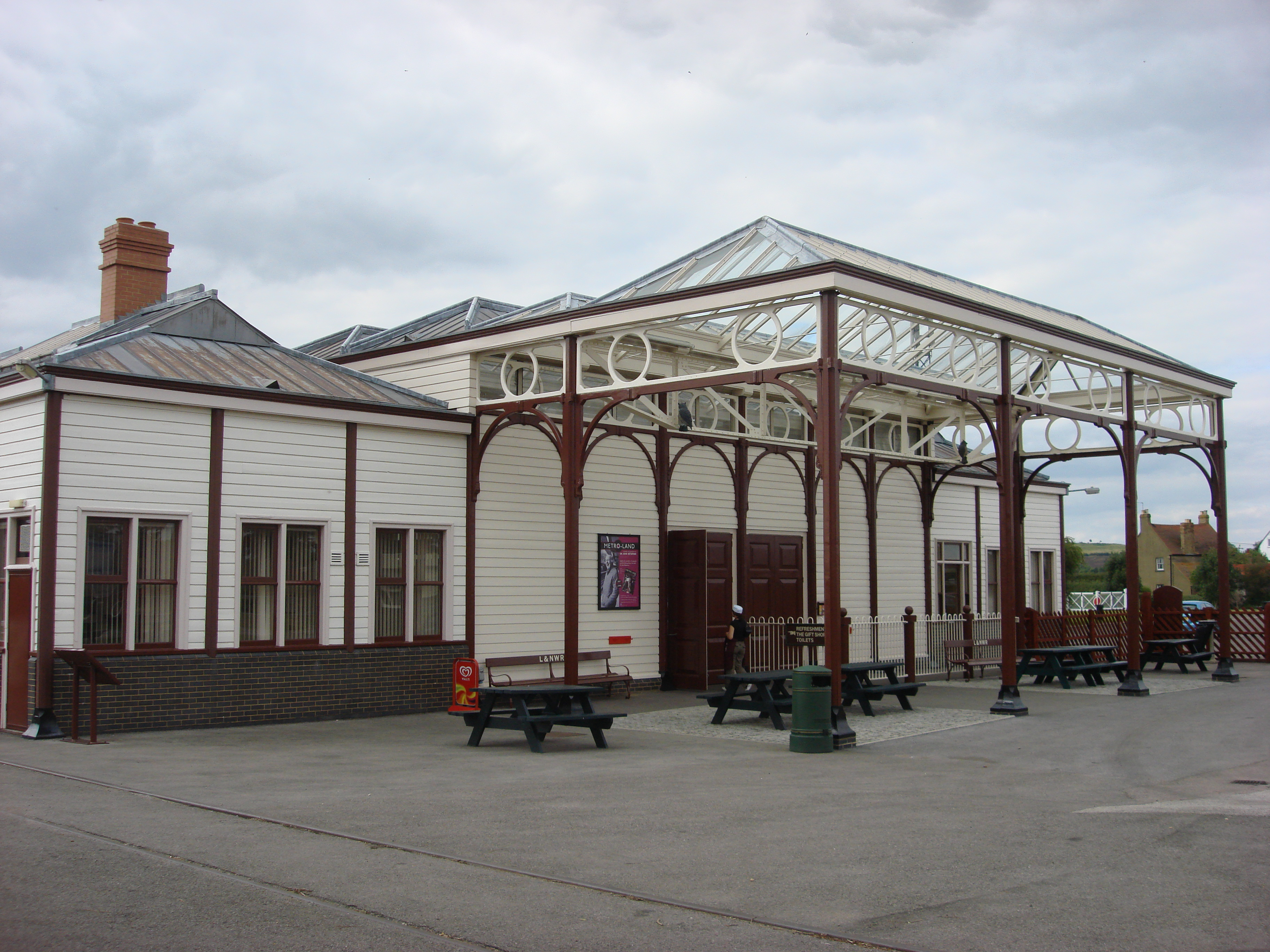 a listed station building which was dismantled at its original site in Oxford city centre and re-erected at the Buckinghamshire Railway Centre